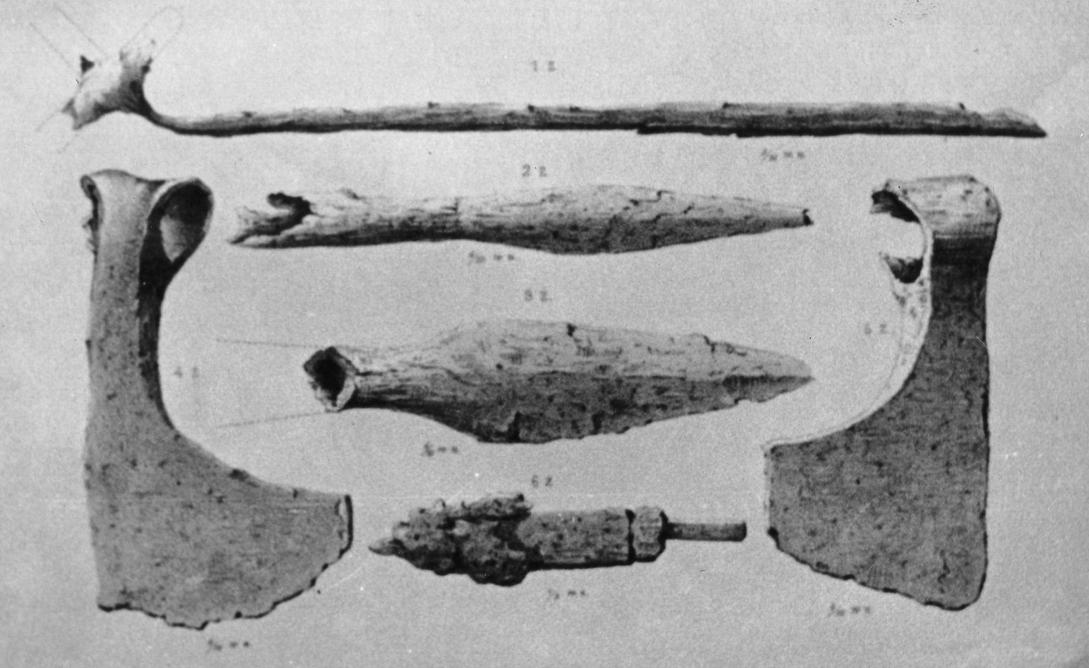 (Imbarė cemetery)